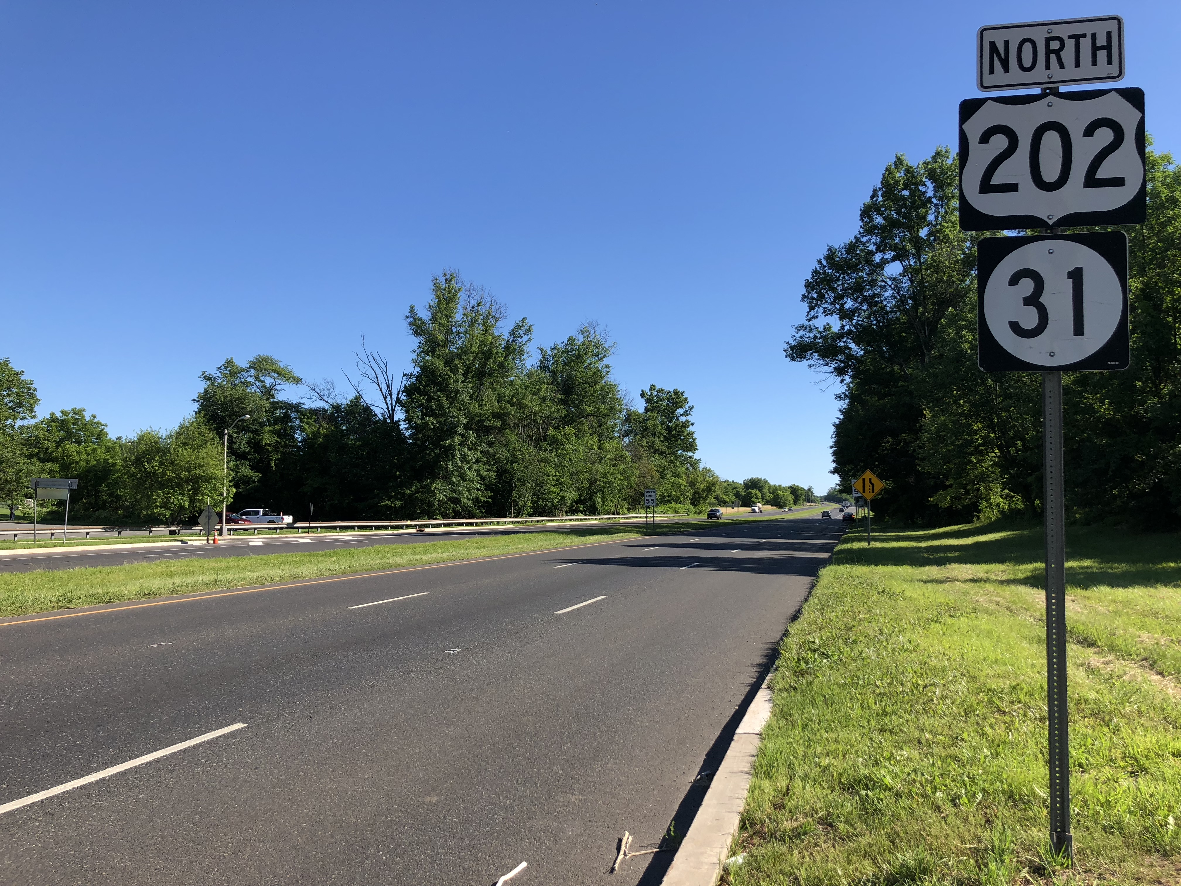 View north along U.S. Route 202 and New Jersey State Route 31 at Hunterdon County Route 602 (Wertsville Road) in East Amwell Township, Hunterdon County, New Jersey